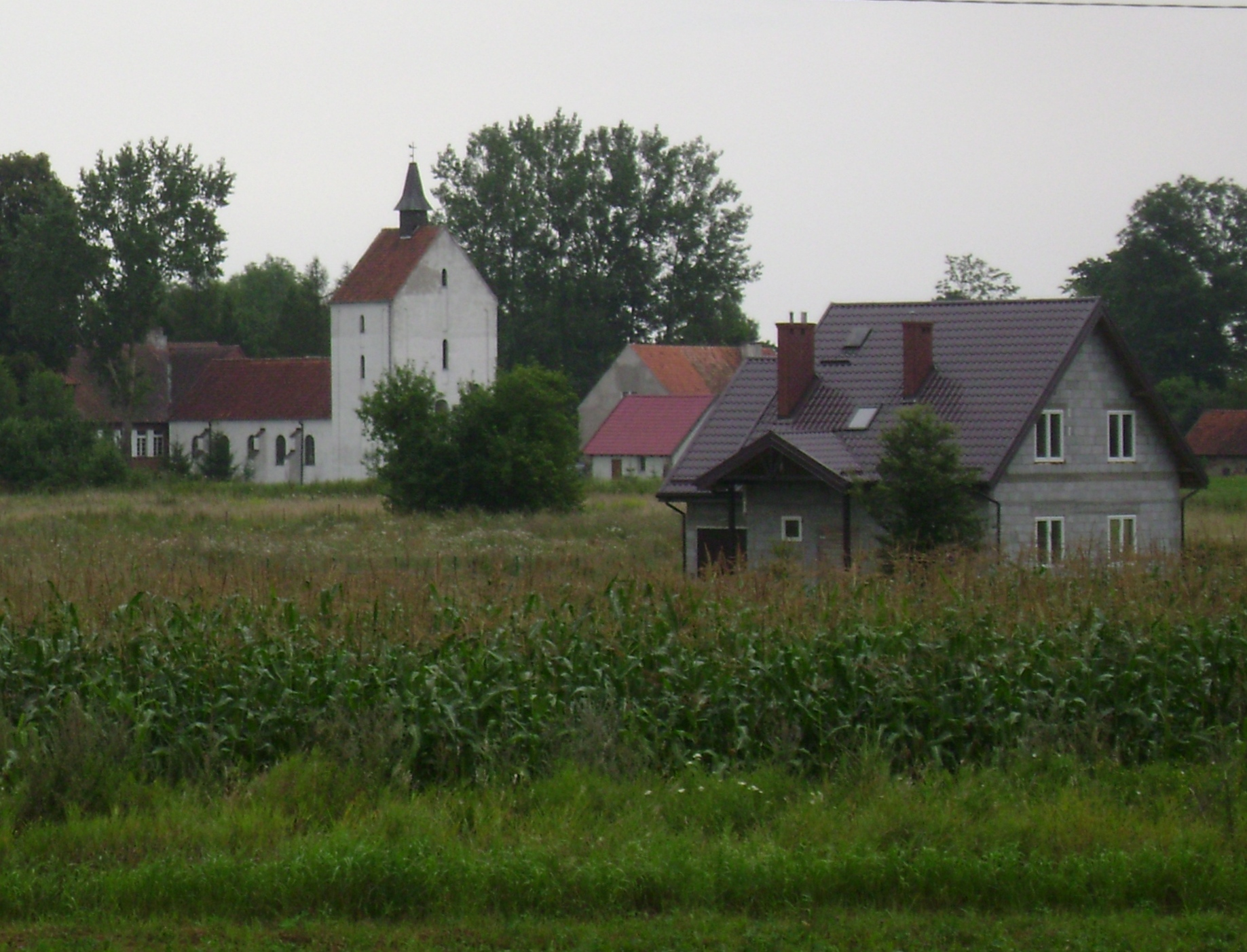 Poland. Gmina Pasym. Grom